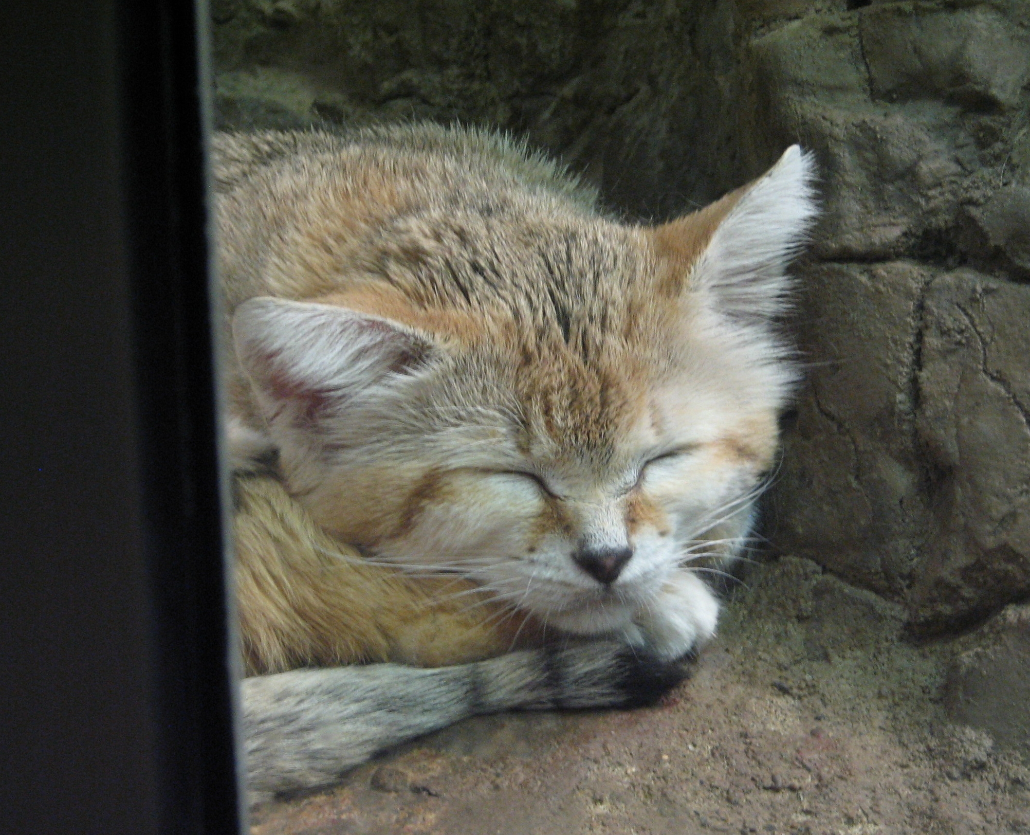 Sand Cat - Felis margarita at Cincinnati Zoo